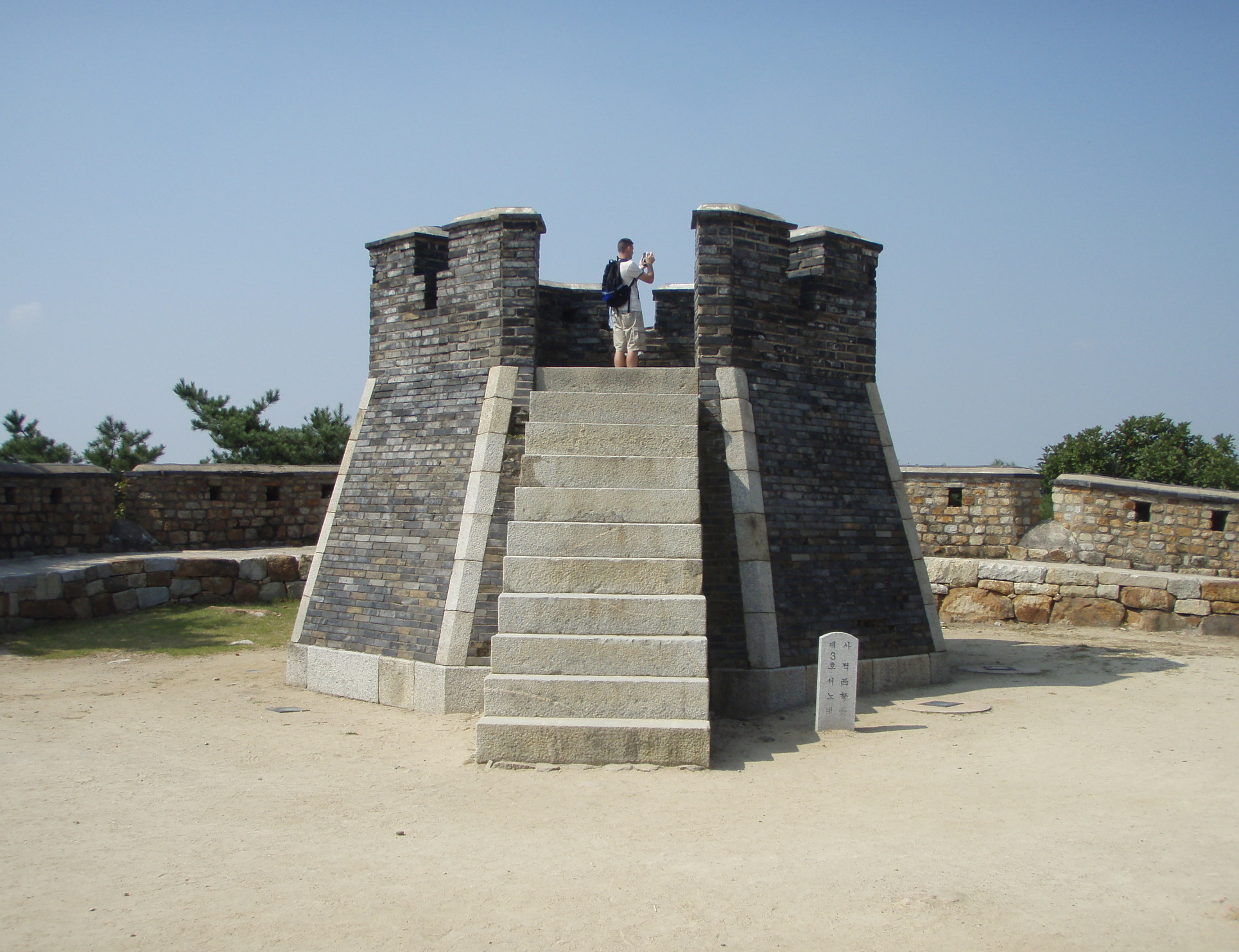 Seonodae Suwon Hwaseong Fortress UNESCO